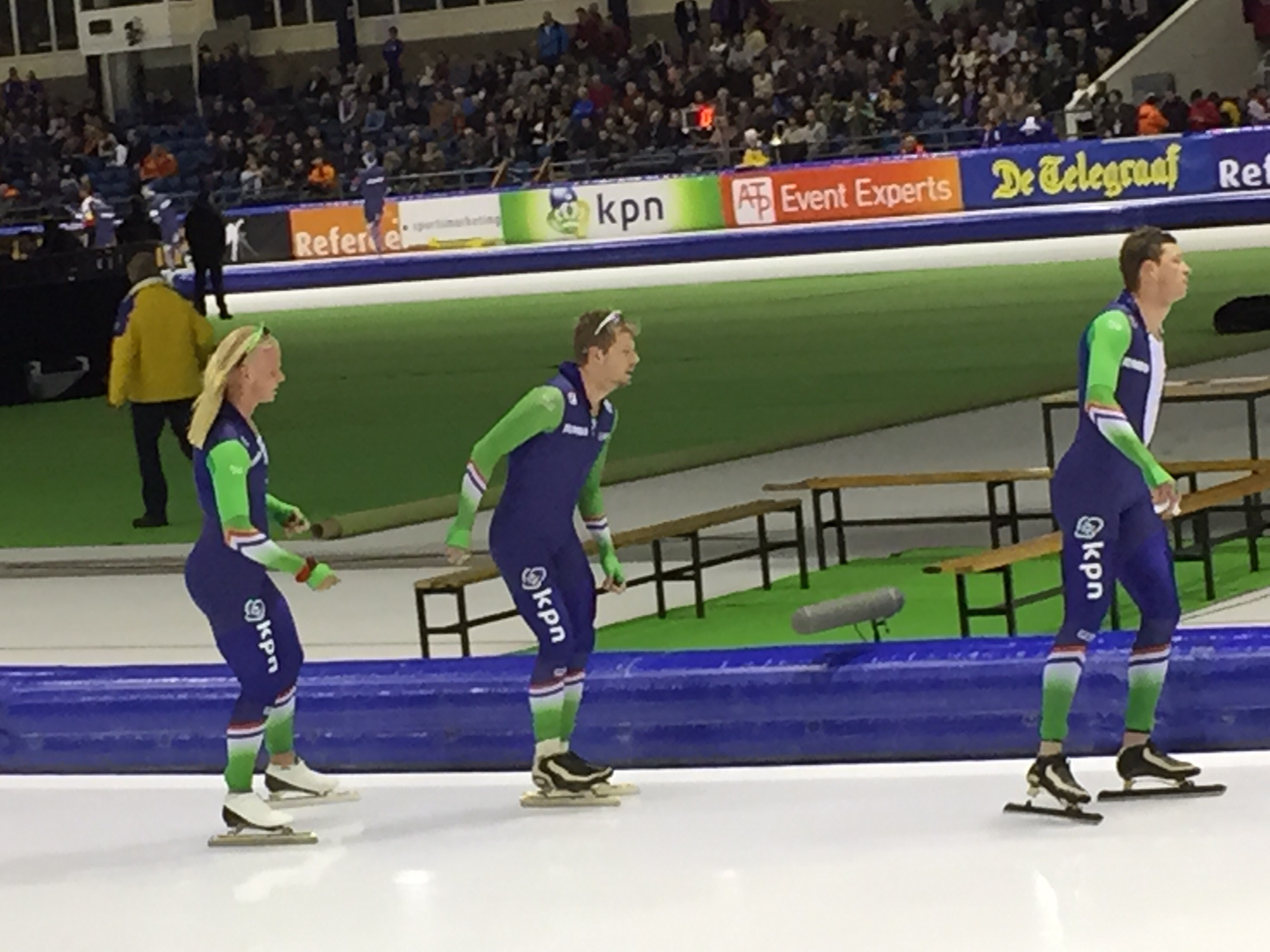 2015 World Single Distance Speed Skating Championships, mens team pursuit